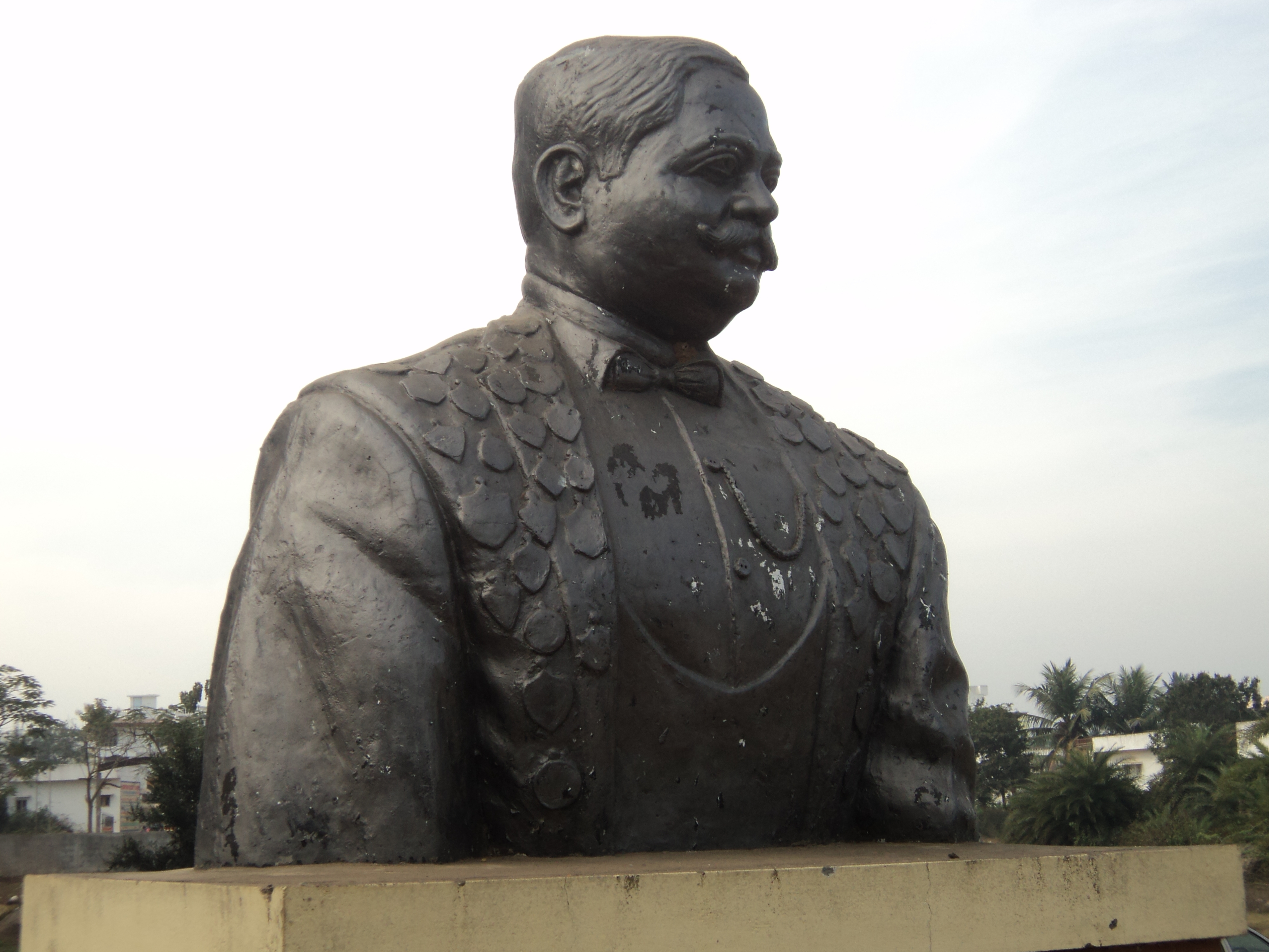 This is Photograph of Statue of Kodi Ramamurthy Naidu in Srikakulam taken by me.Rajasekhar1961 (talk) 13:32, 22 February 2012 (UTC)